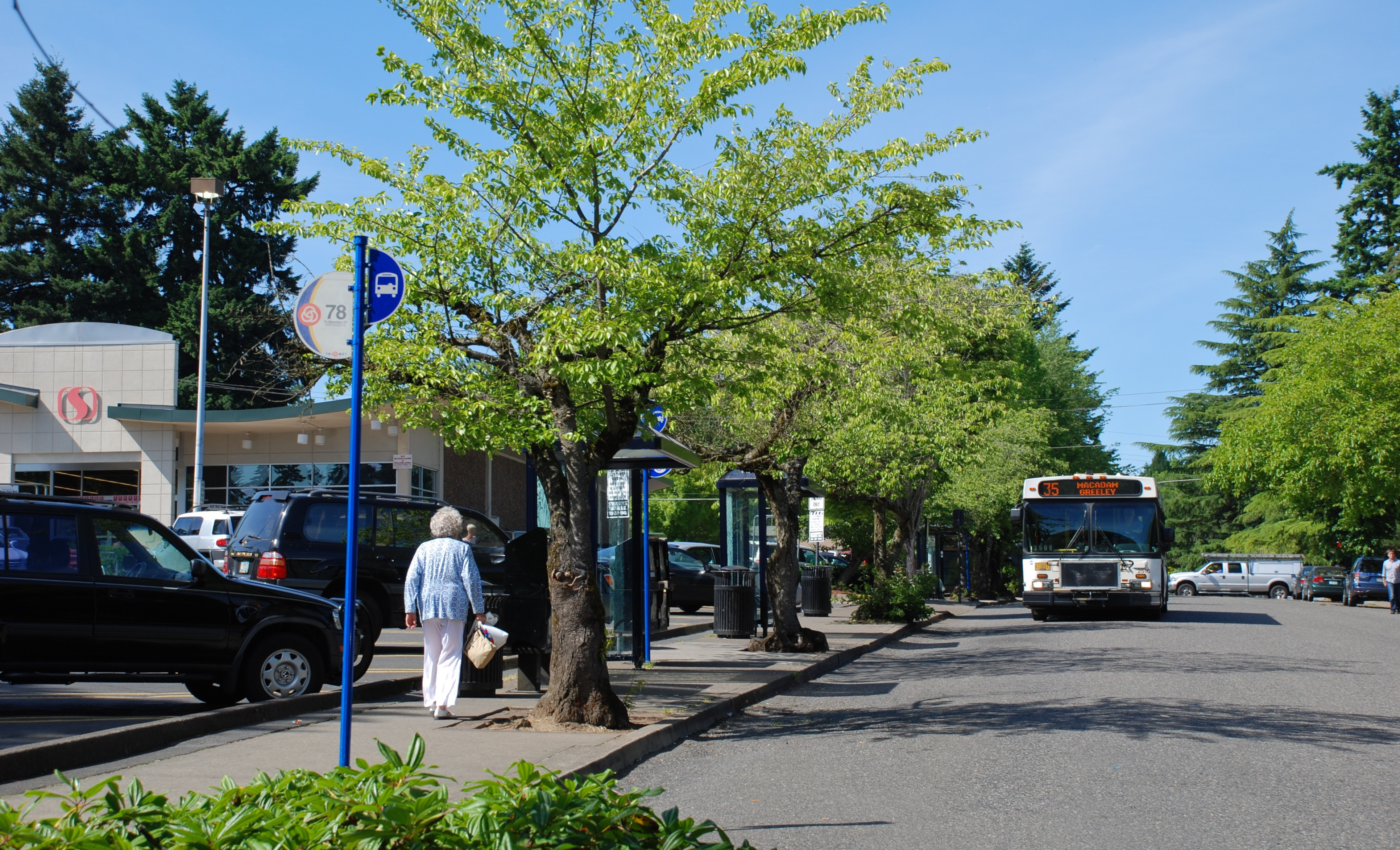 TriMet's Lake Oswego Transit Center in 2013, with bus 2516 (a 2000 New Flyer D40LF) arriving, on a northbound trip on line 35-Macadam/Greeley. The transit center is located on 4th Street between "A" and "B" Avenues. In the background is a Safeway store.